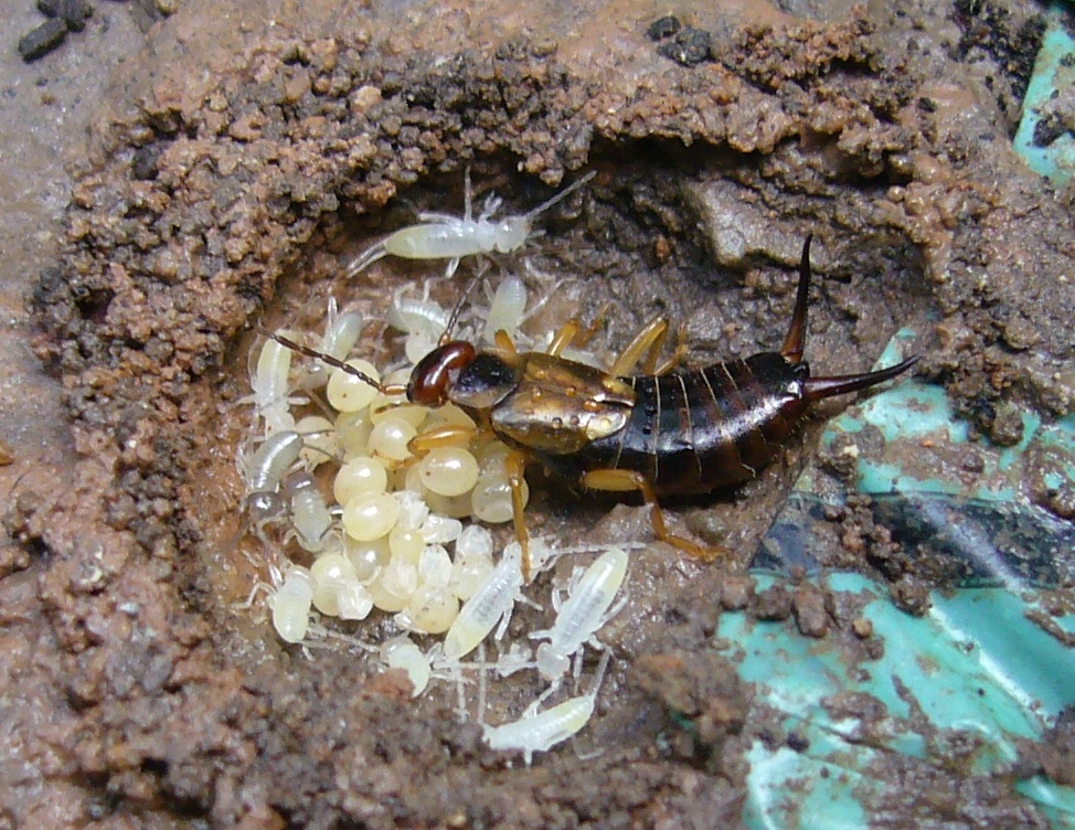 Female earwig in its nest with newly-hatched young. The nest is underneath a house-brick in the garden. The brick was carefully replaced after the photo was taken. Photographed in Chester, UK.